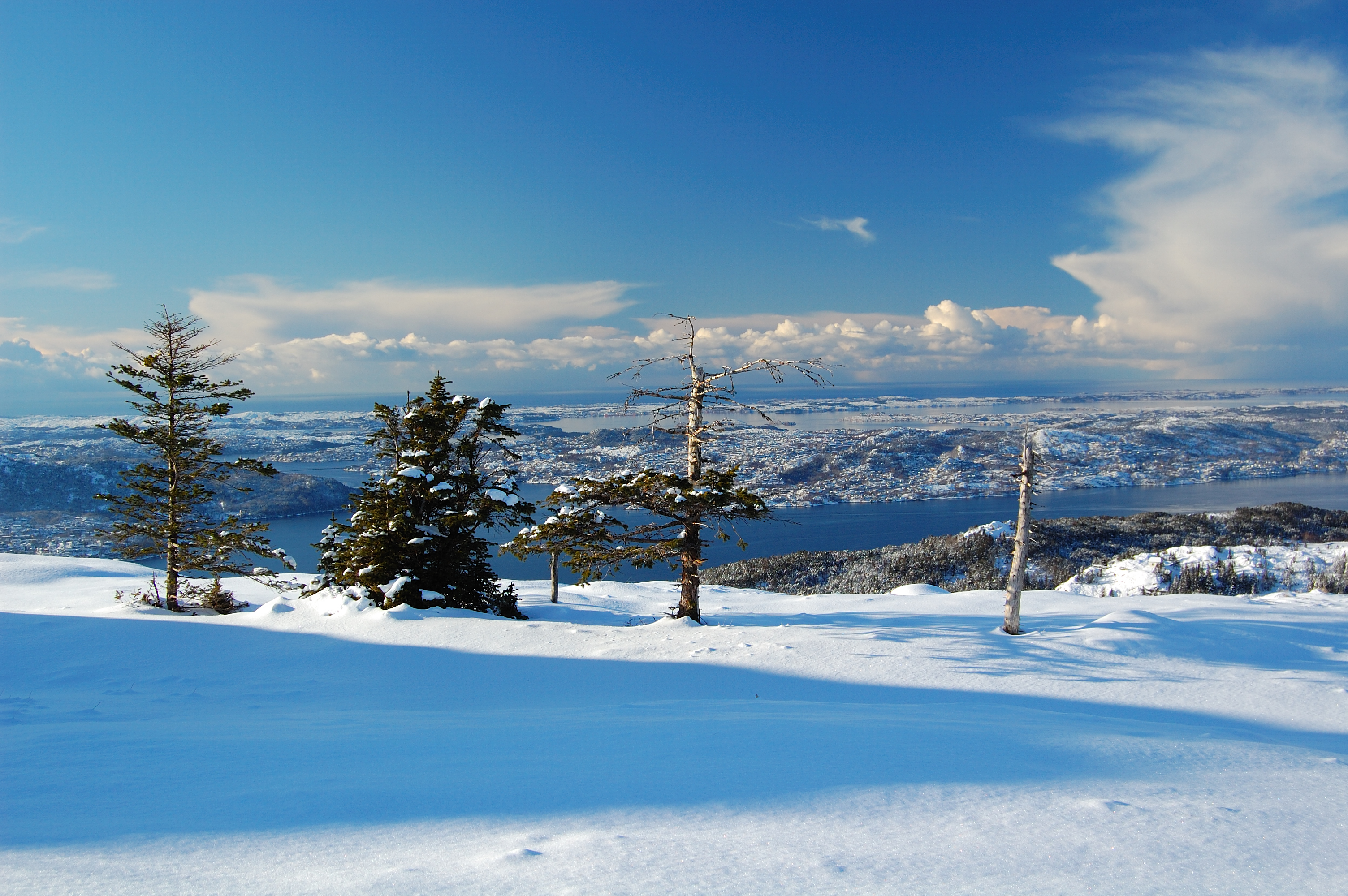 Four small trees atop the Blåmanen mountain.